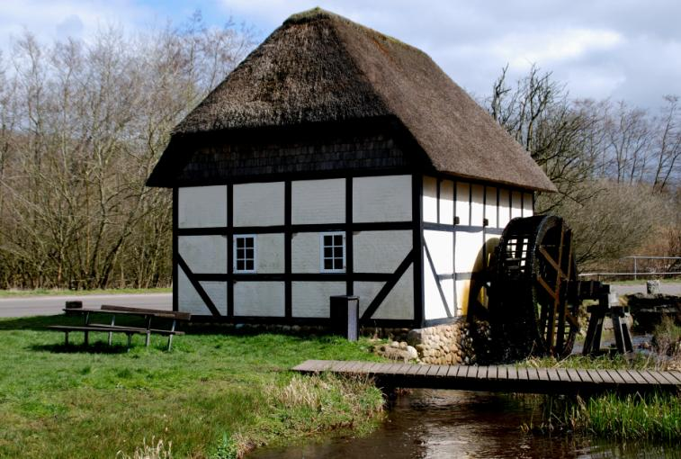 Watermill at Tvis Monastery